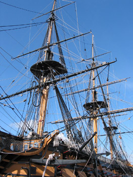 HMS Victory - mast and rigging.